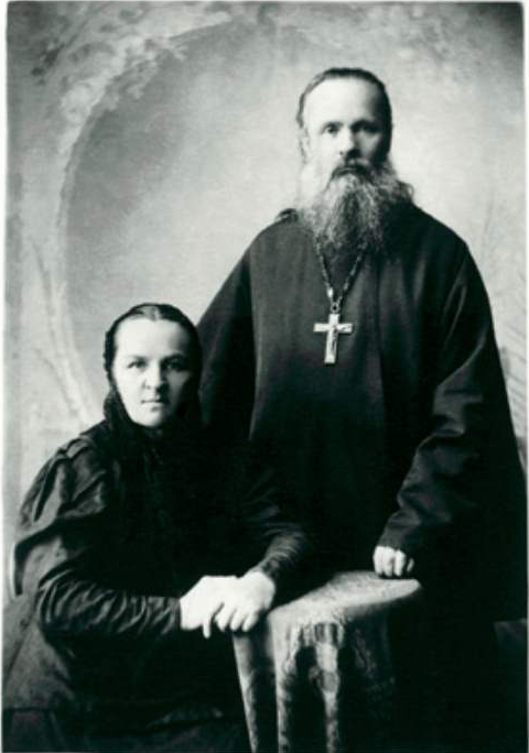 Father Fedor Vladimirskiy and his wife Ekaterina nee Raevskaya